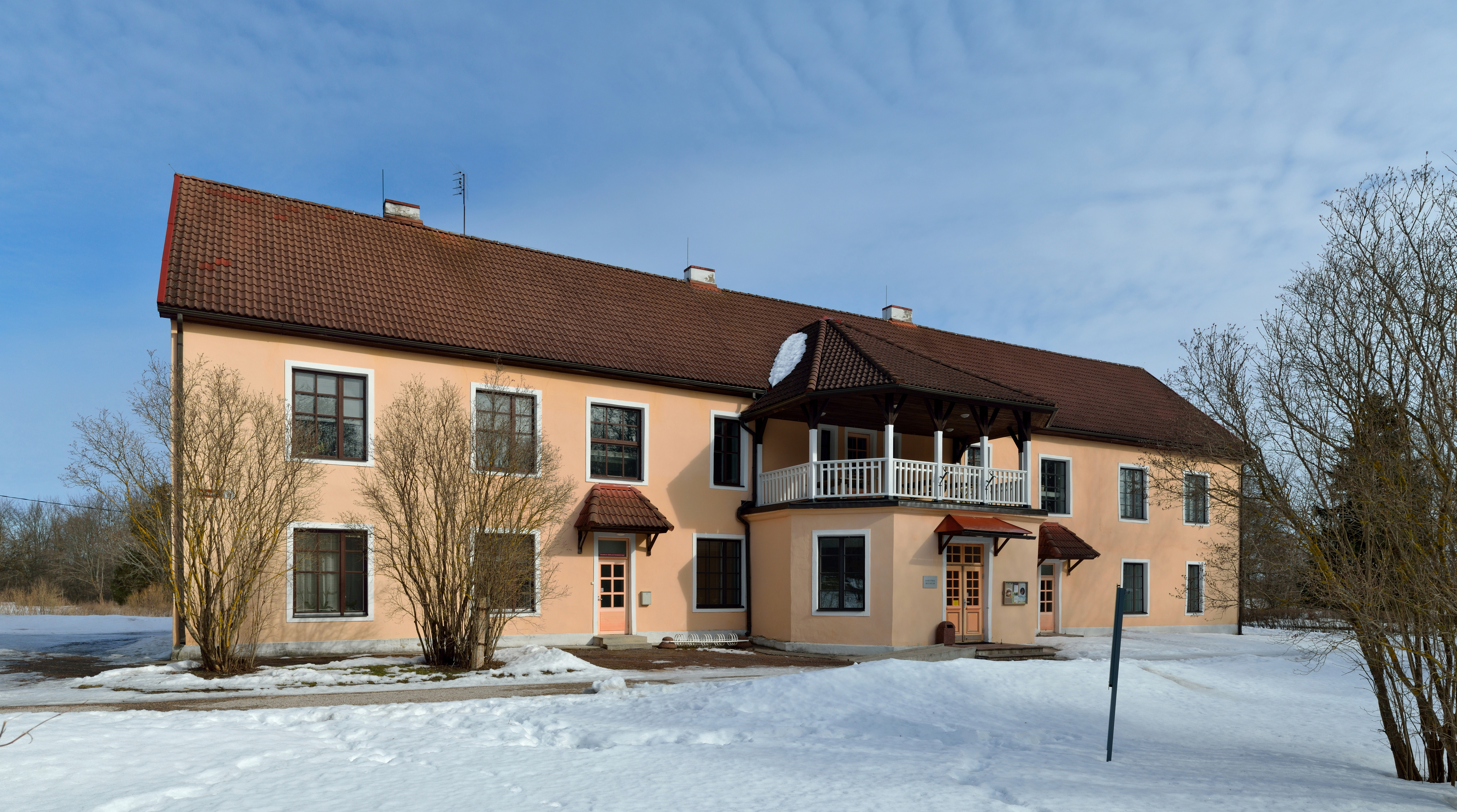 Keila manor main building, today Harju County Museum